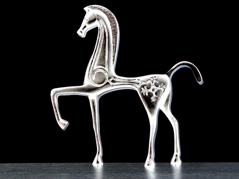 Etruscan Horse - 600 B.C. - height 20cm - Reproduction